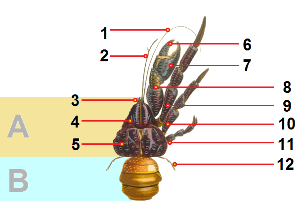 Coconut crab with added tags